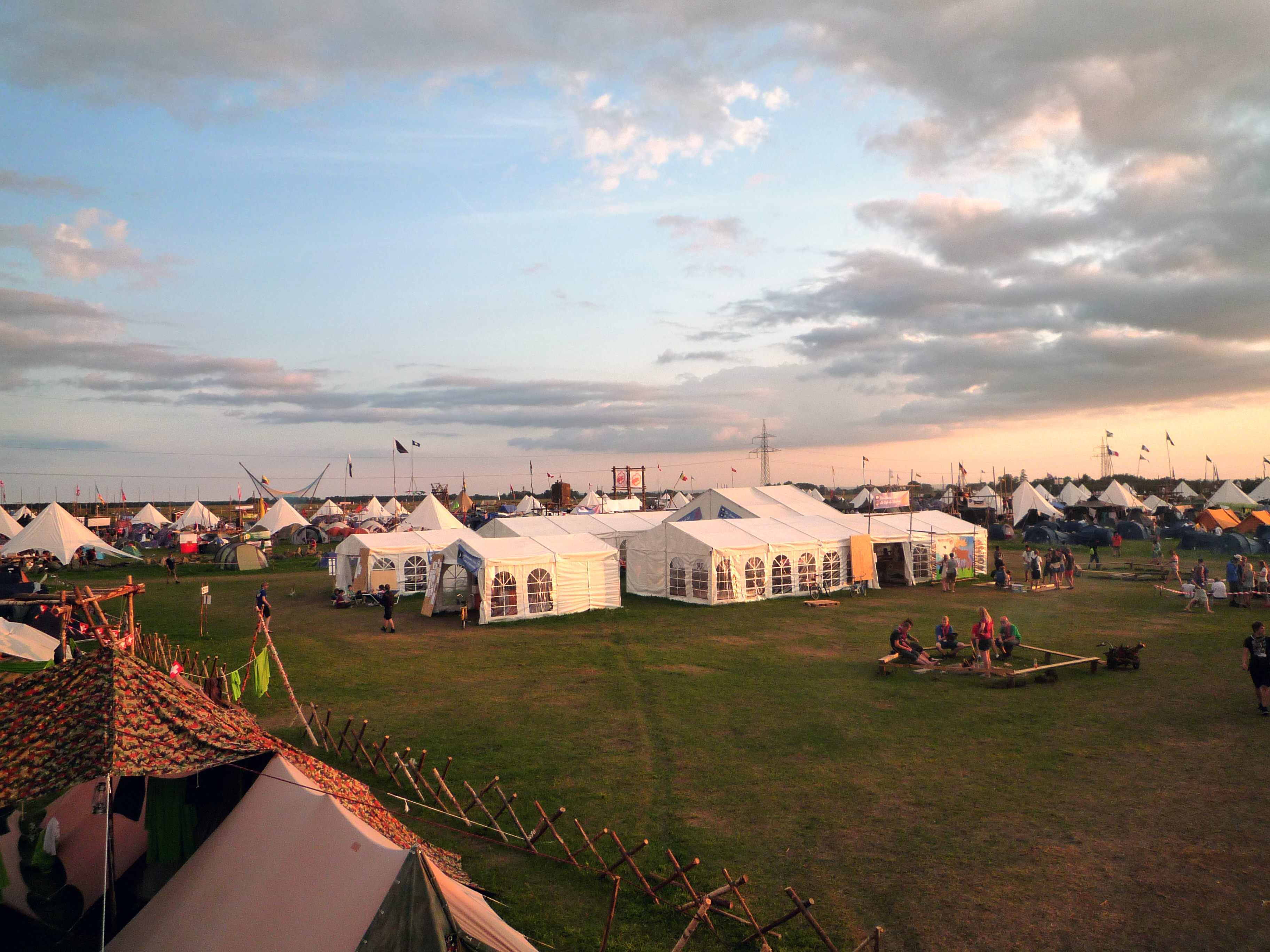 A view over the subcamp center of Hunneberg (and Svedala in the background) at the World Scout Jamboree 2011 in Sweden.